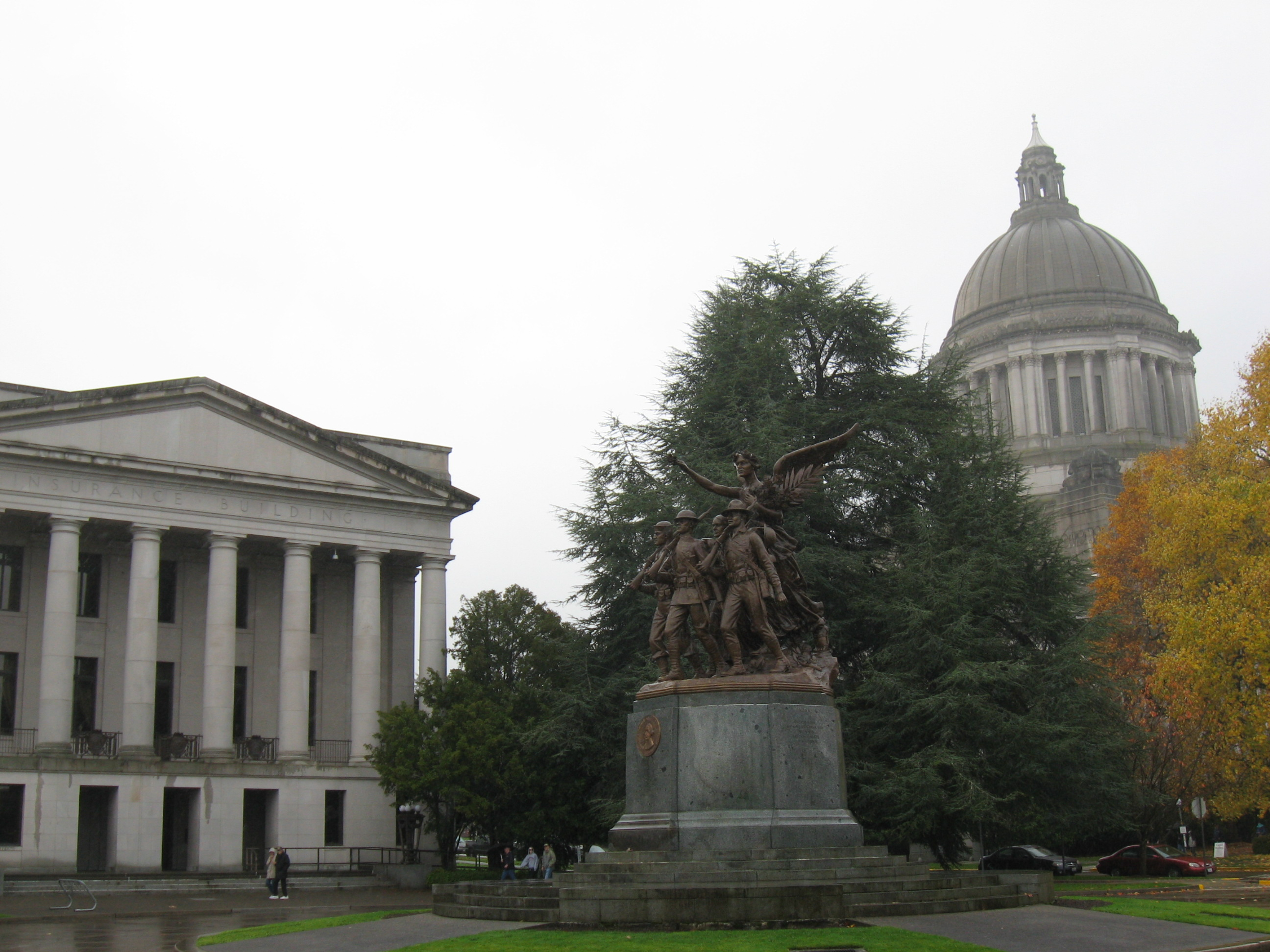 Washington State Capitol and the Insurance Building, with the Winged Victory Monument in the middle, on a rainy Veterans Day - Taken from Sunken Garden. The monument was dedicated to WWI veterans on Memorial Day, 1938, with the most recent major maintenance in summer 2008 (a few months before this photo was taken), according to the Washington State Department of Enterprise Services.